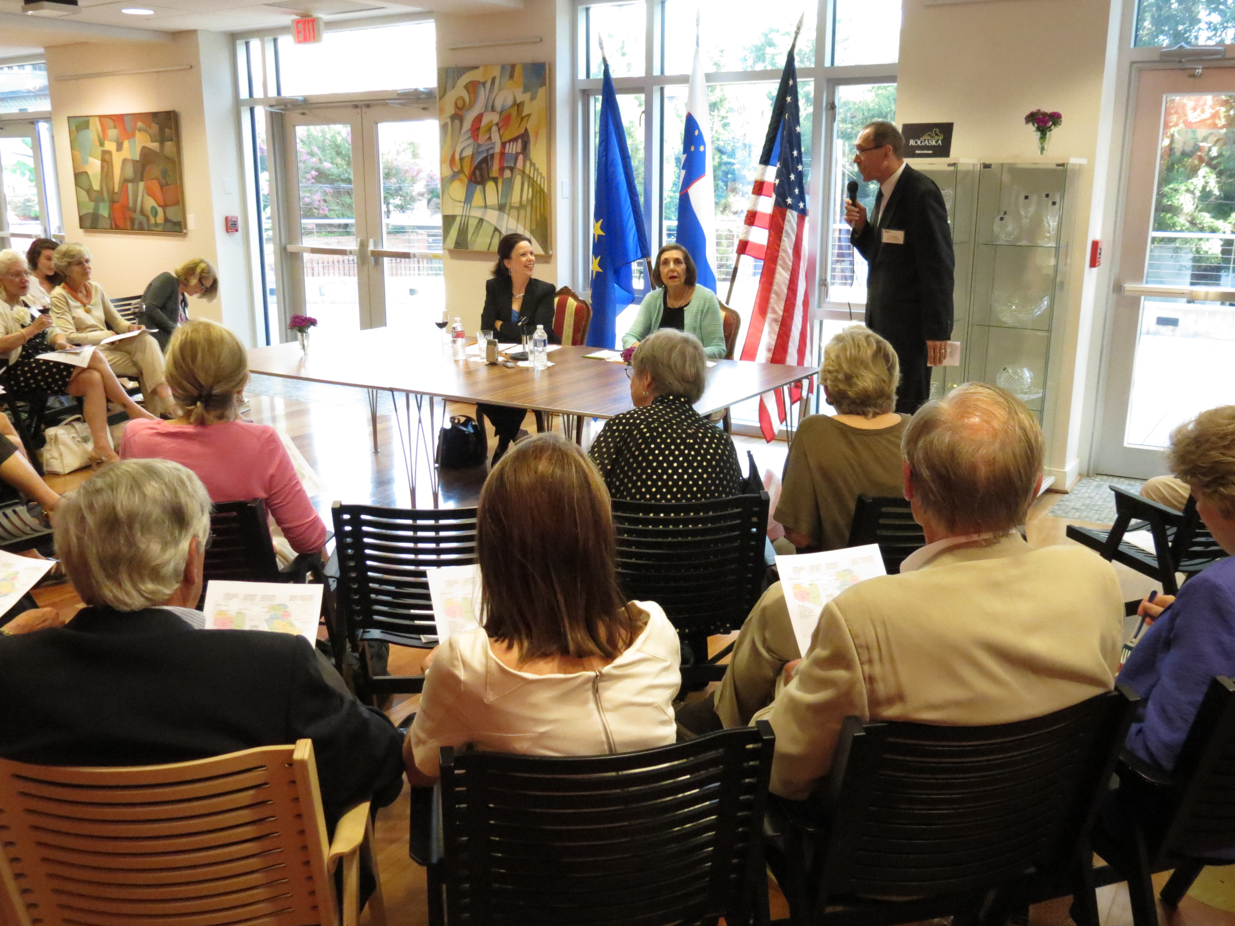 panel discussion